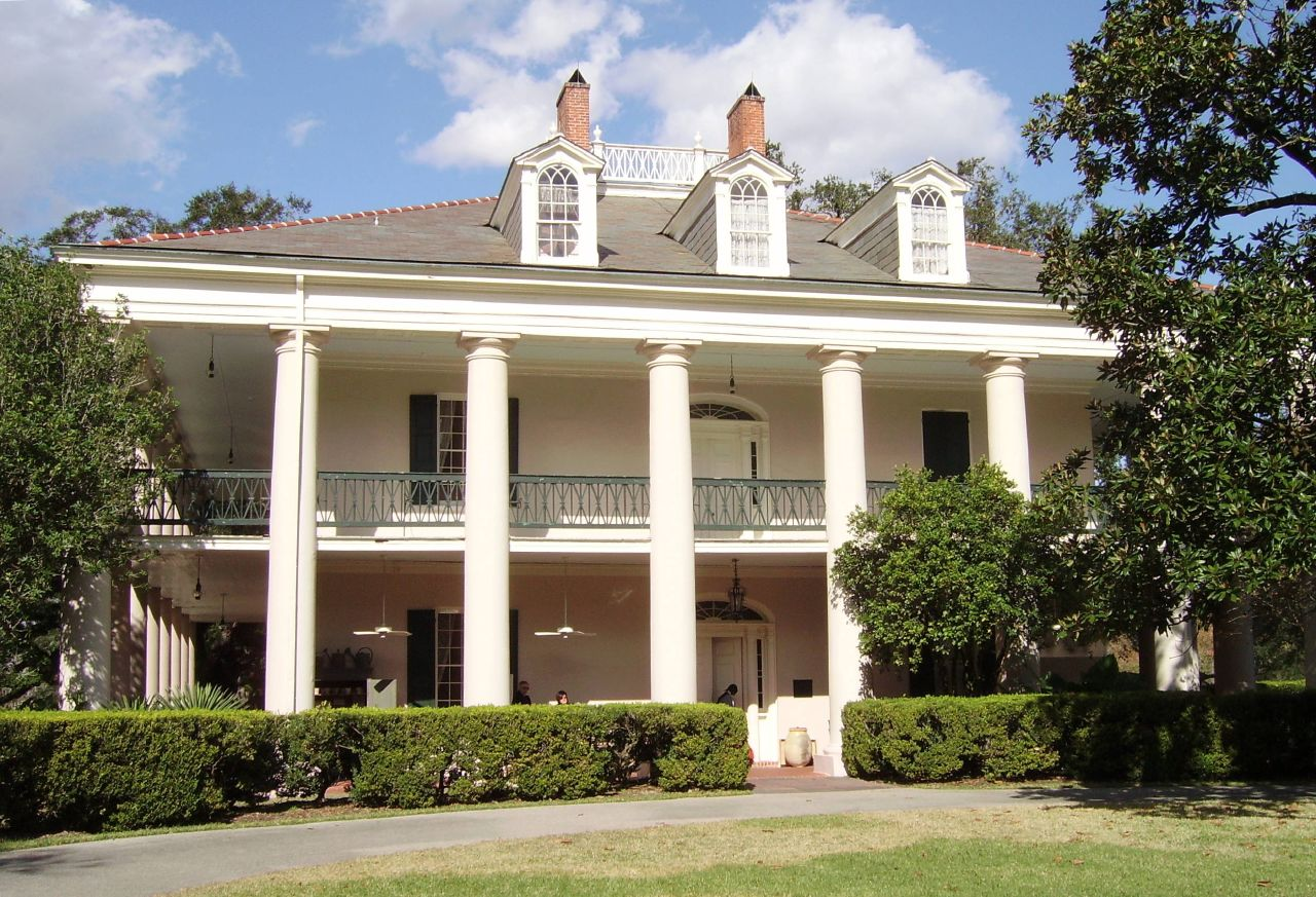 The Oak Alley plantation mansion in Louisiana is protected as a National Historic Landmark of the United States of America. This plantation mansion was constructed in the late 1830's for Jacques Telesphore Roman and is located within the small town of Vacherie, Louisiana. Its formal National Register of Historic Places designation number is 74002187.